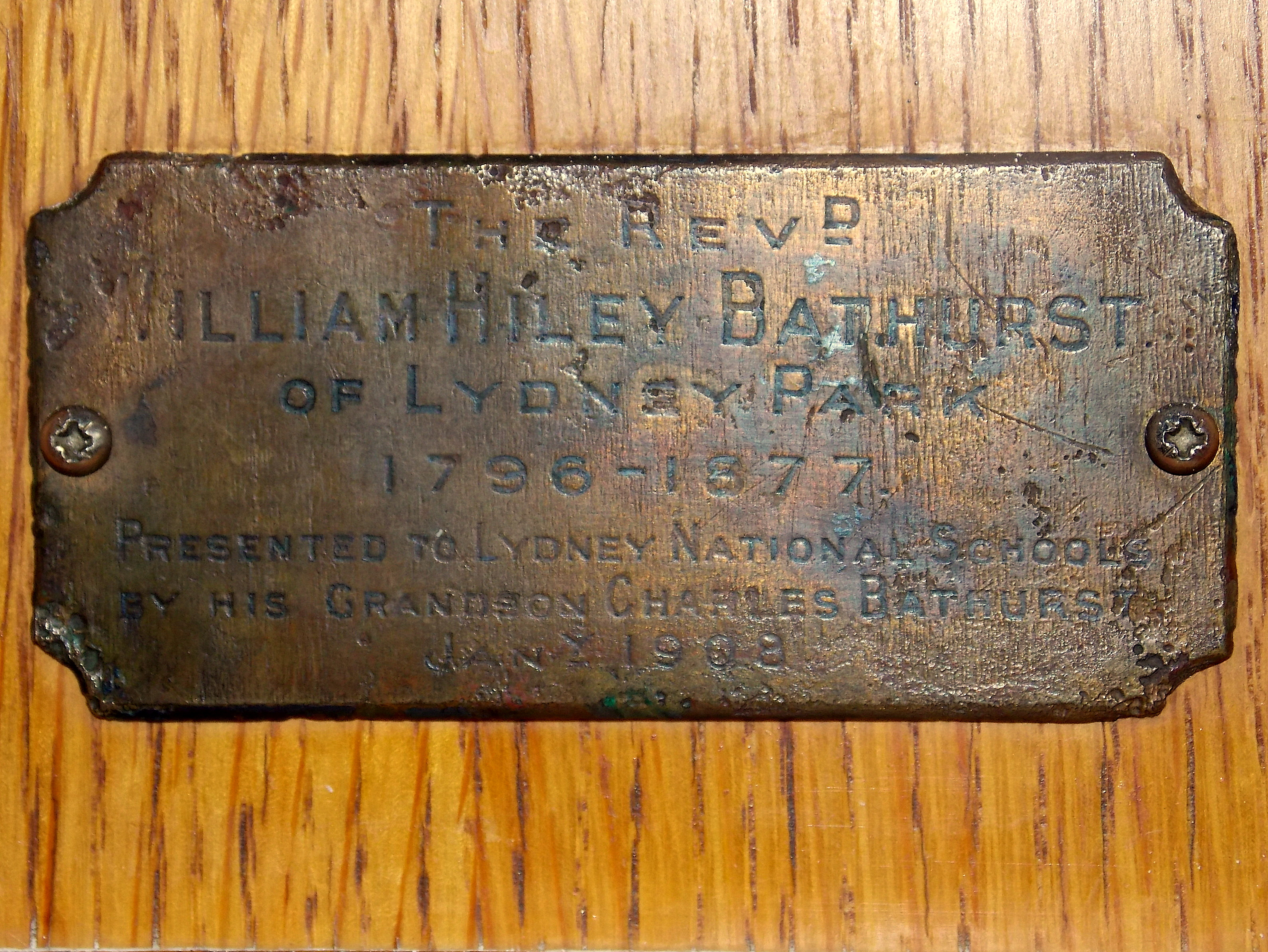 Plaque; 'William Hiley Bathurst' - presumably from a painting? Presented to Lydney National Schools by his grandson, Charles Bathurst in 1908. Located at the Fountain Inn, Parkend.